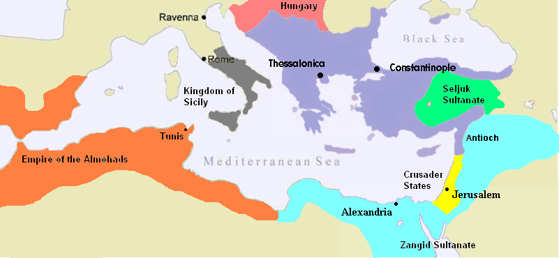 A map of the Byzantine Empire, c.1180AD